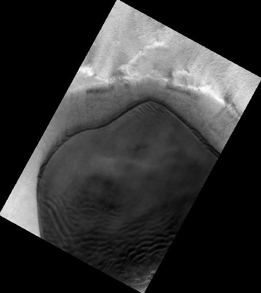 Pityusa Patera, as seen by hirise. Location is 66.8 S and 36.9 E.